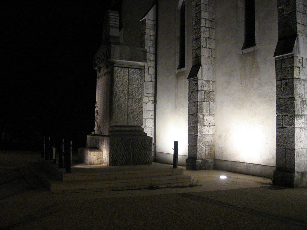 Monument near the church in Péron (Ain)